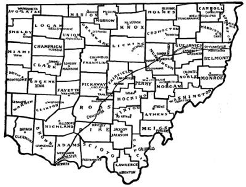 This map shows approximate path of a road laid out by Ebenezer Zane late in the 18th century in Ohio.